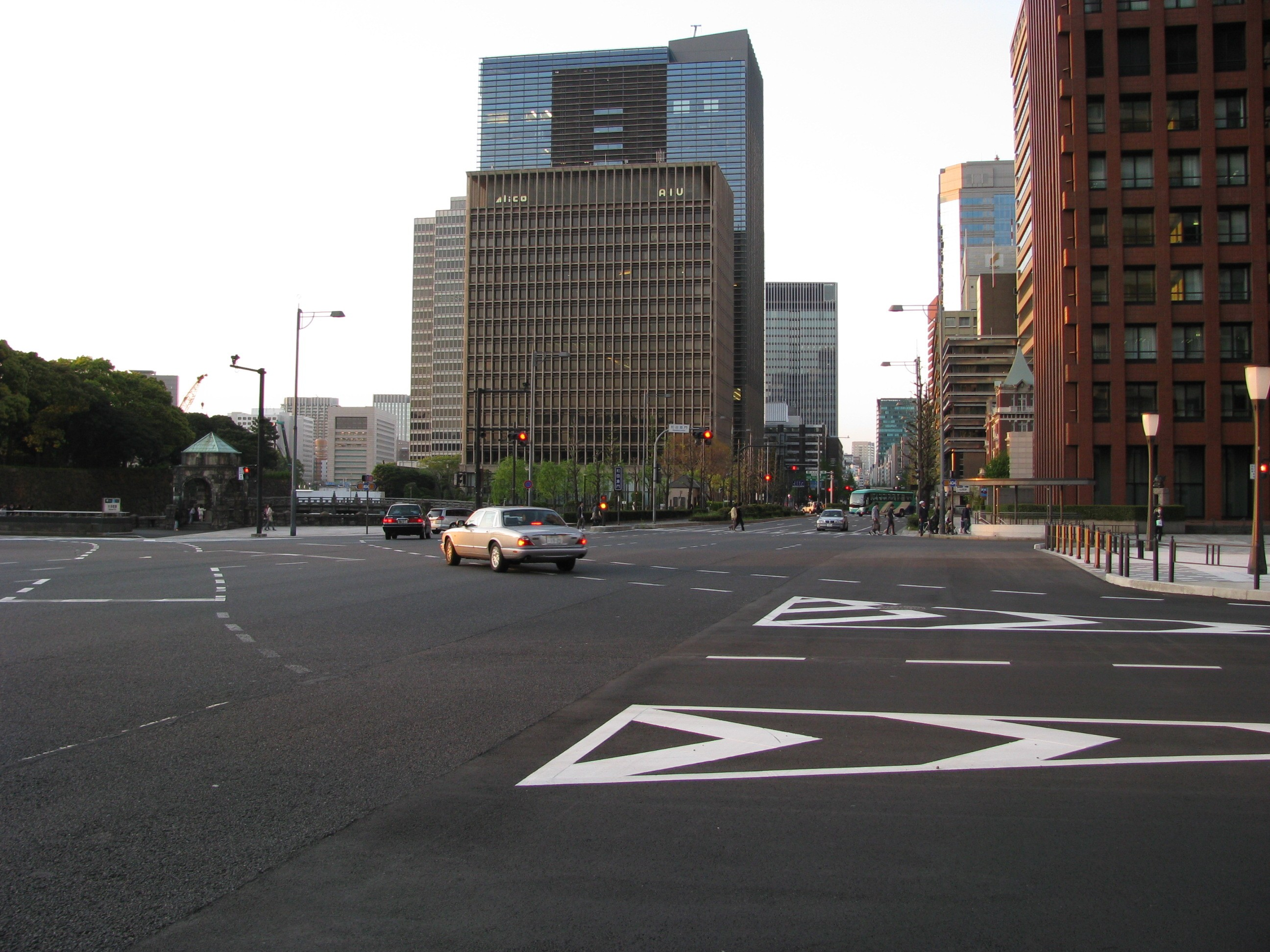 The National Route 1. This place is Wadakura-mon intersection in Marunouchi, Chiyoda, Tokyo, Japan. Wadakura-mon was gate of Edo Castle.